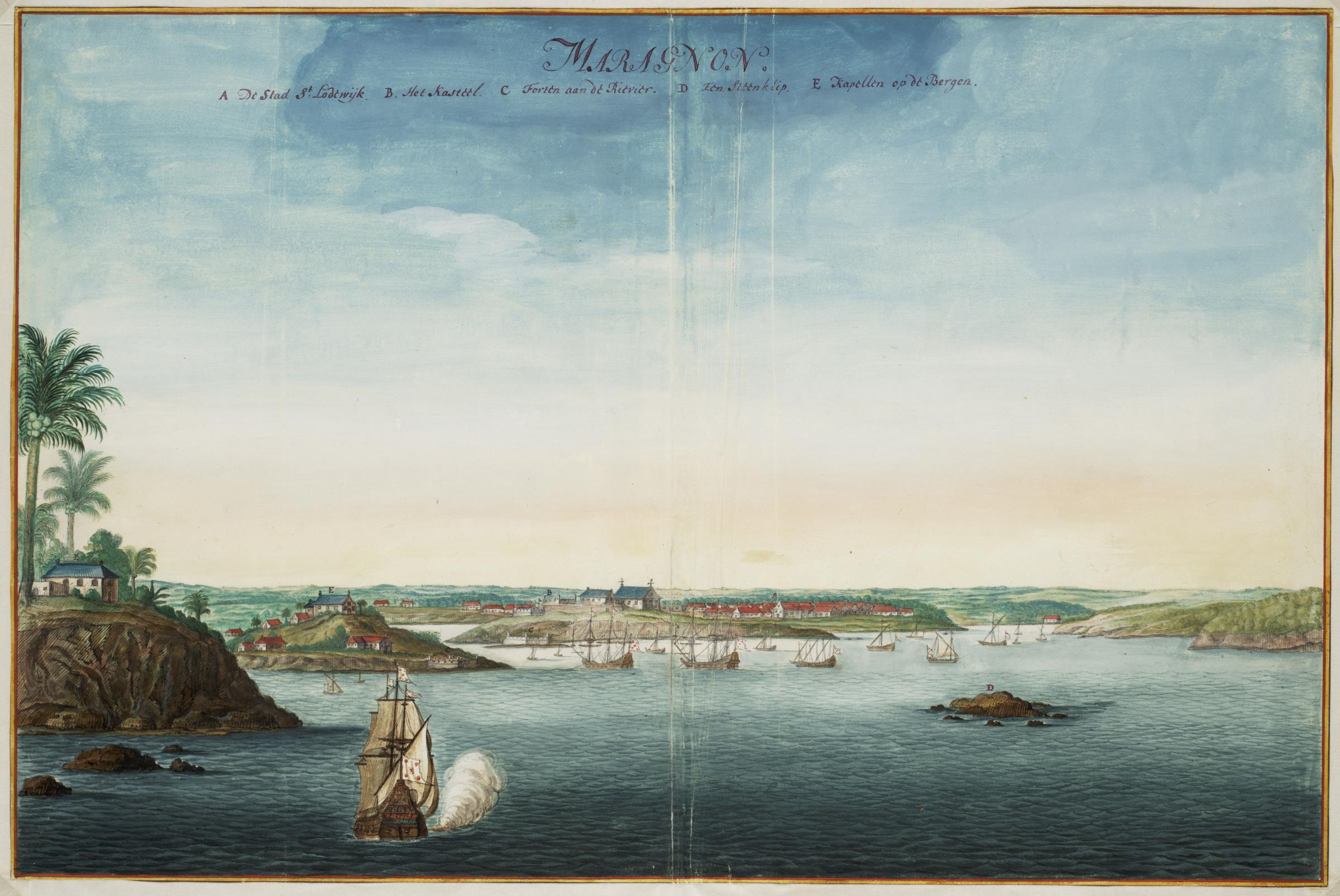 Title in the Leupe catalogue (NA): Gezicht op "de stad St. Lodewijk" (St. Luiz de Marnhao) en omstreken van de zeezijde. View of Sao Luis de Maranhao. Maragnon. Remarks: the chart is contained in the Vingboons Atlas. Key: A De stad St: Lodewijk / B. Het Kasteel. / C Forten aan de rievier. / D Een steenklip. / E Kapellen op de Bergen. Cf. Koninklijke Bibliotheek, Den Haag, inv. nr. 1043 B 14, after p. 224 no. 51.